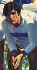 A picture of Delio Onnis cropped from a public domain image.